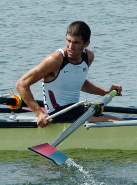 2004 Summer Olympics - Army World Class Athlete Program - FMWRC - U.S. Army - Official Image Archive - Athens Greece - XXVIII Olympiad